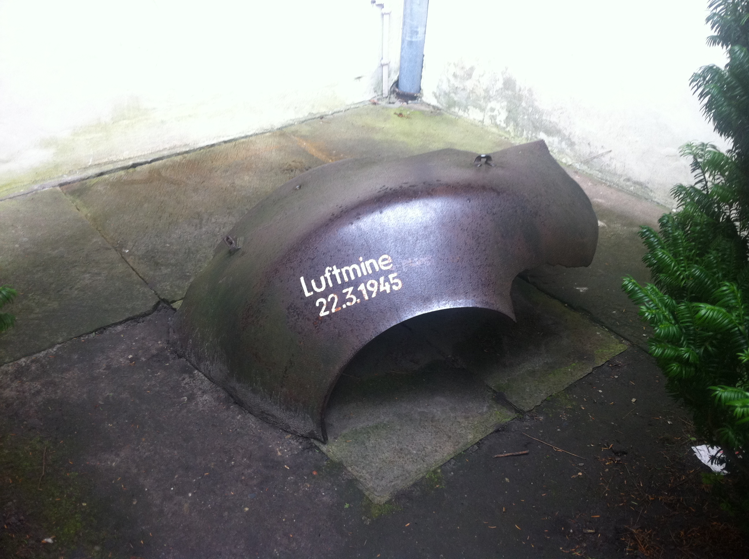 Aerial mine in the cloister of the Paderborn Cathedral